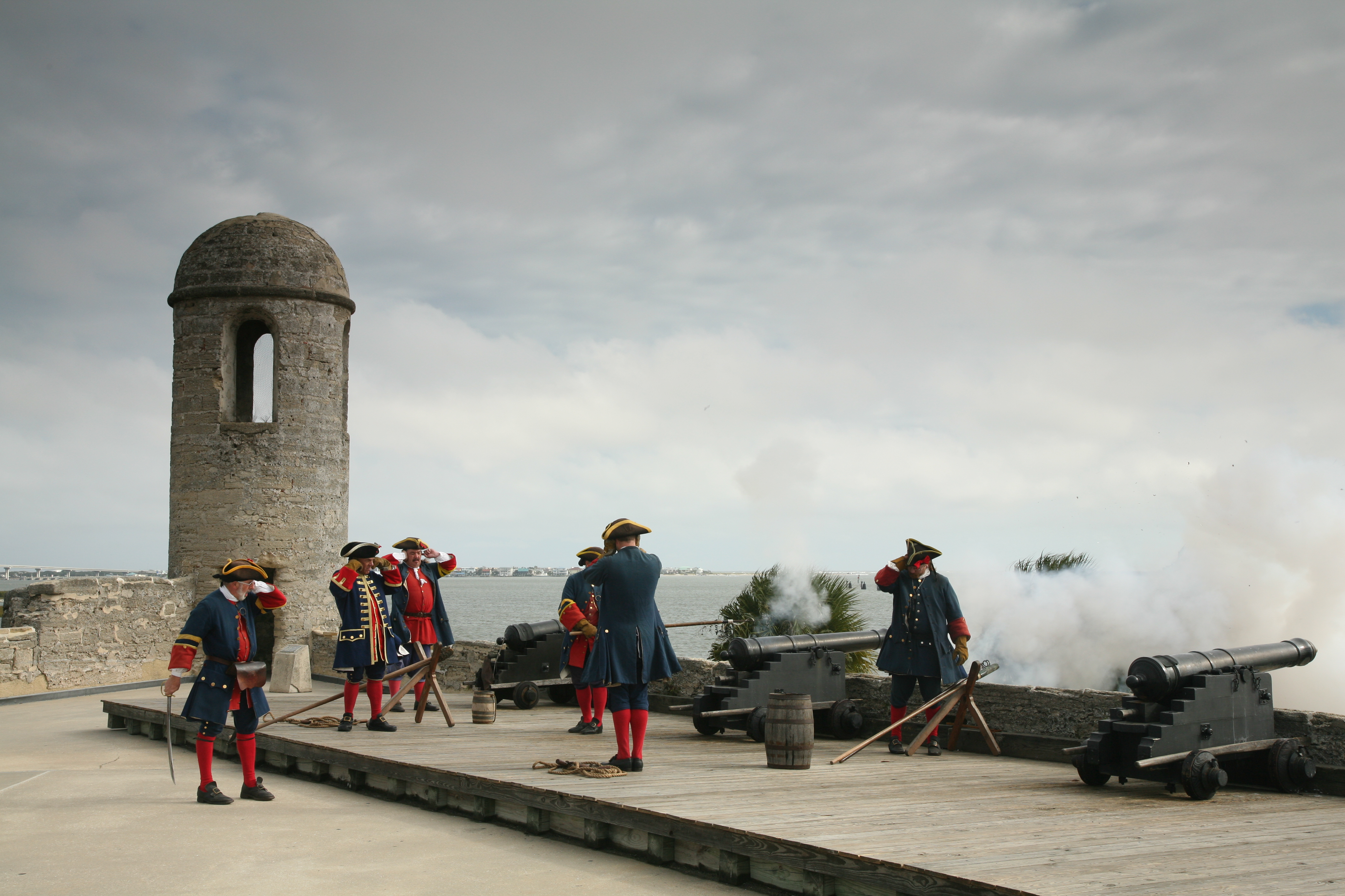 Castel de St. Marcos, cannon firing demonstration